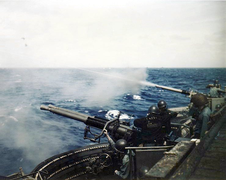 40 mm twin gun mounts firing during gunnery practice aboard the U.S. Navy escort carrier USS Makin Island (CVE-93), 21 March 1945, shortly before the ship took part in the Okinawa operation.